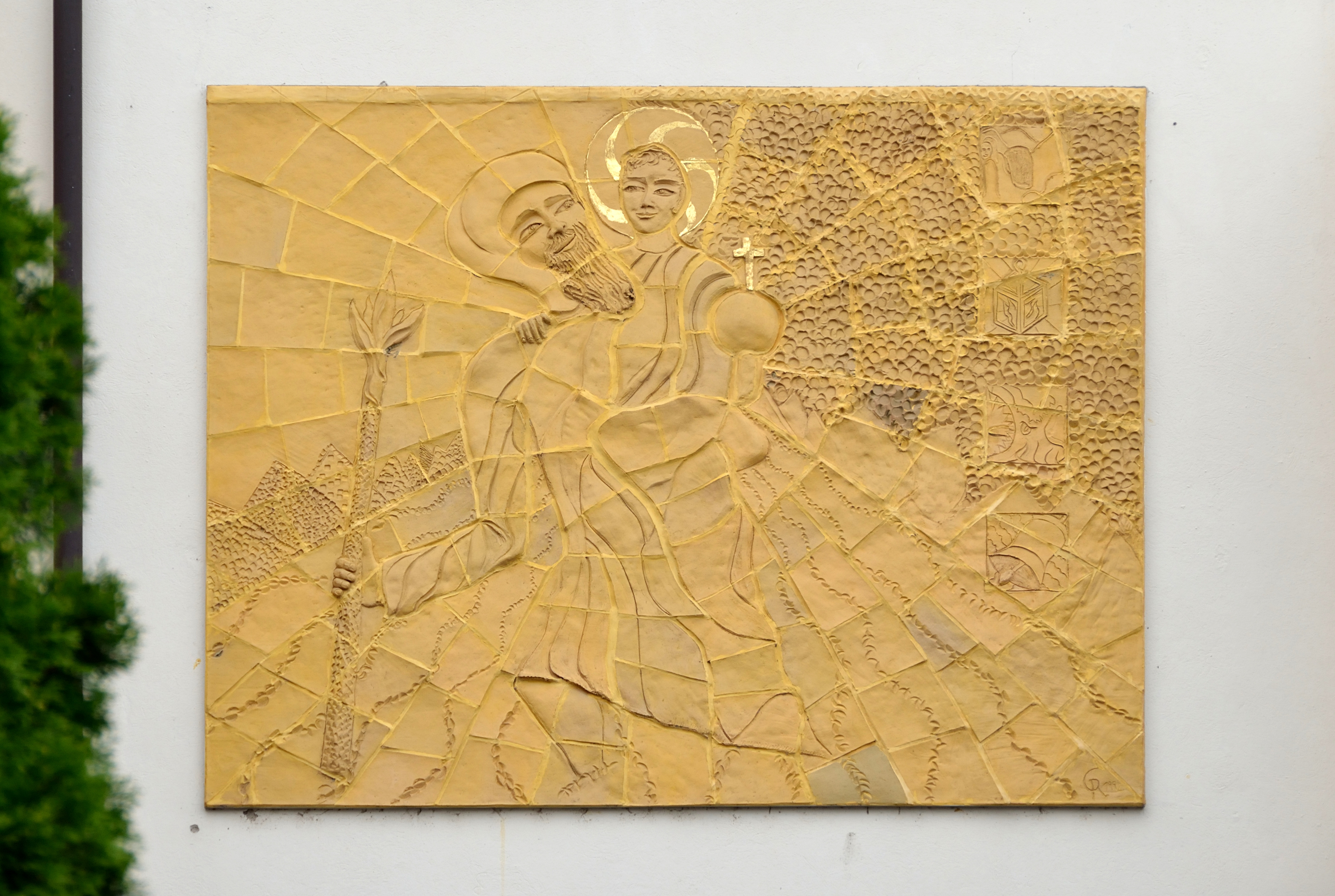 A relief of Saint Christopher by Ricca Bach and Günter Orban (Initials GR, 1992?) at the southern side of the parish church Saints Peter and Paul in Gamlitz, Styria.